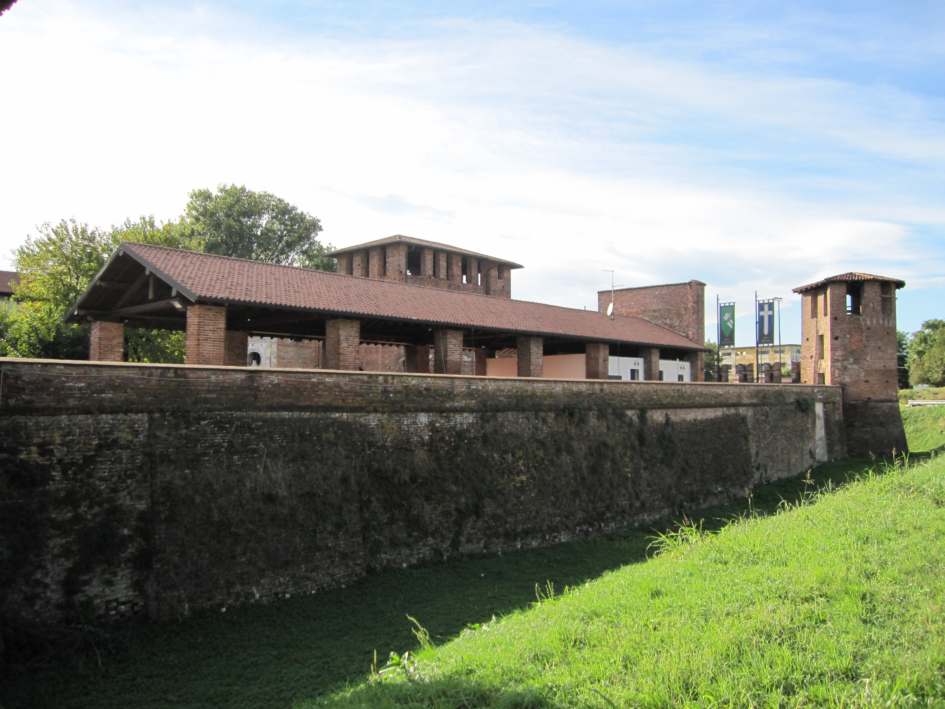 St. George's castle (in Legnano, Italy) - eastern wall view from south